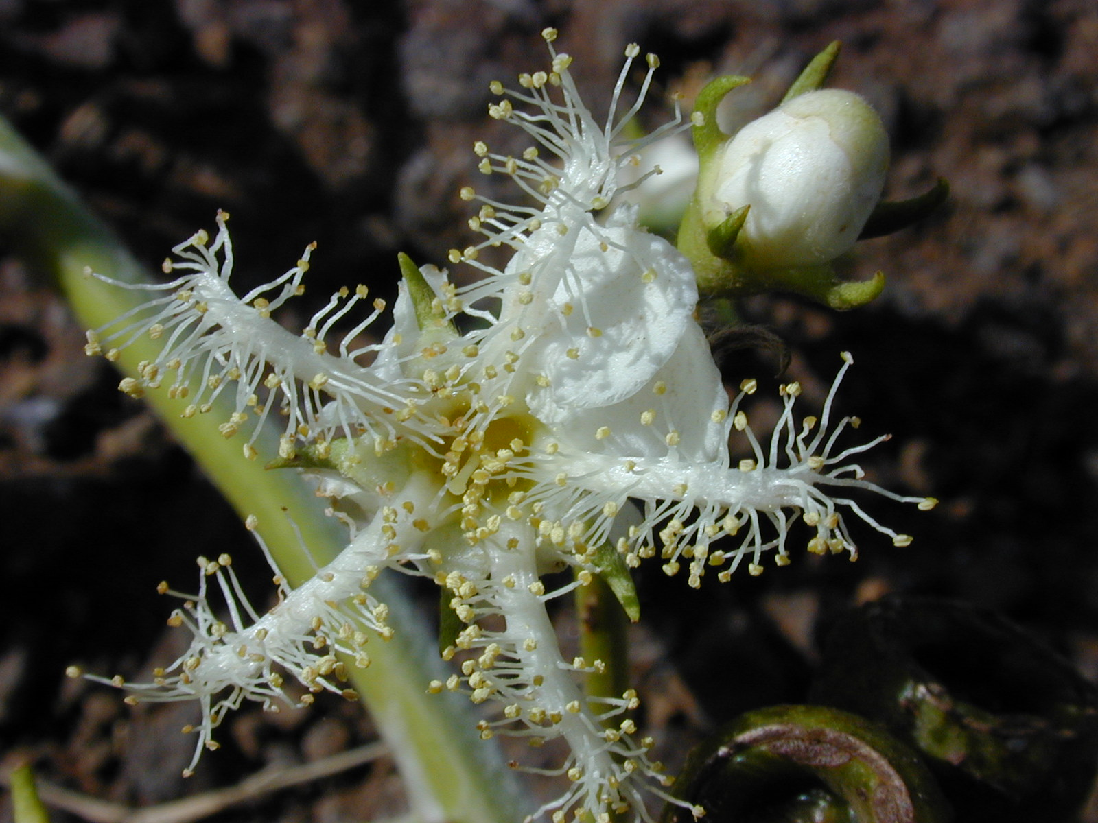 Lophostemon confertus (flower). Location: Maui, Pololei Haiku